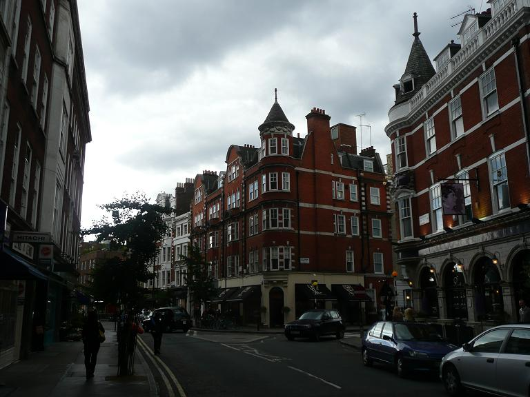 Marylebone High street, London